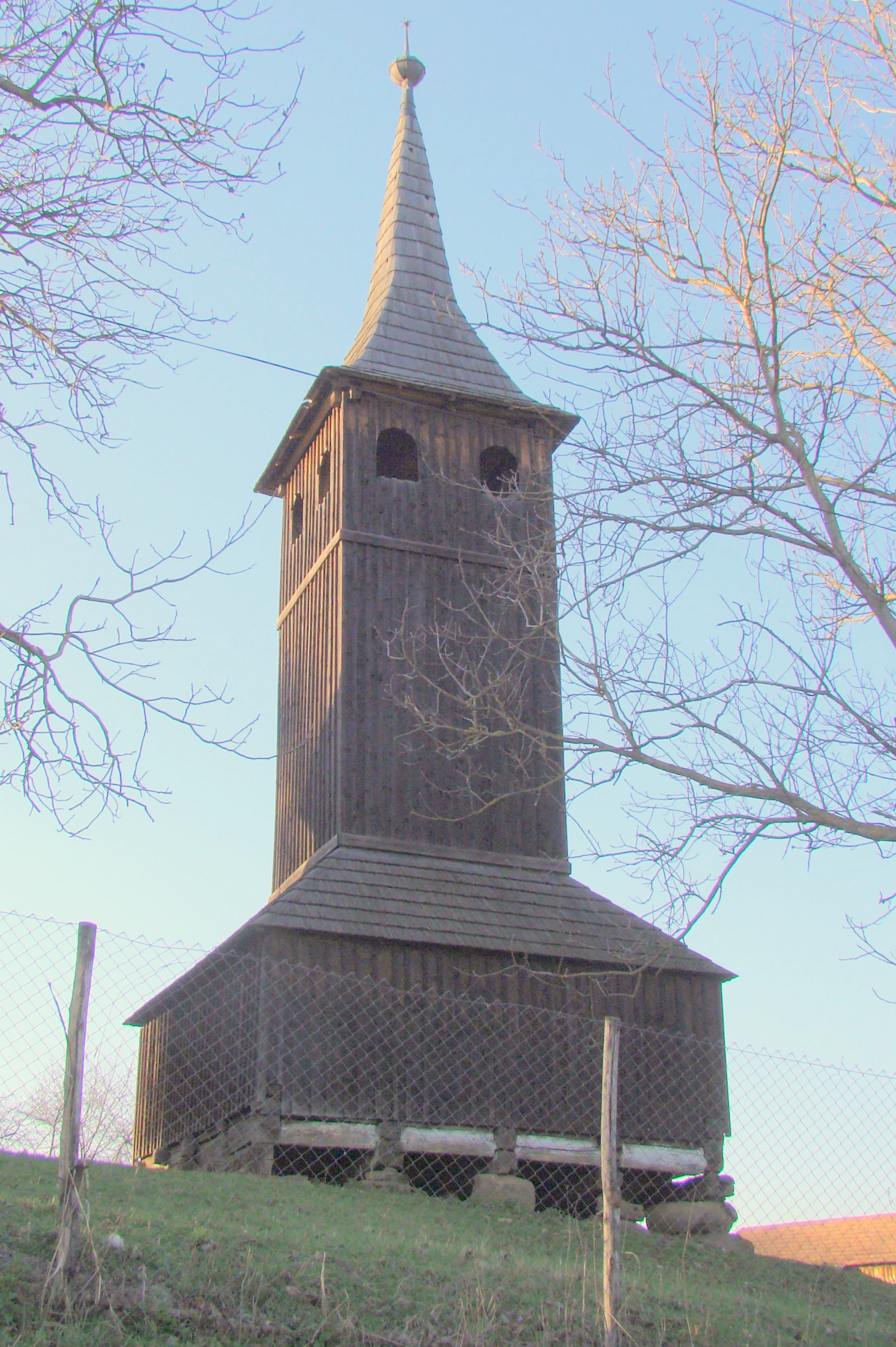 The wooden belfry of the reformed church in Ercea 02